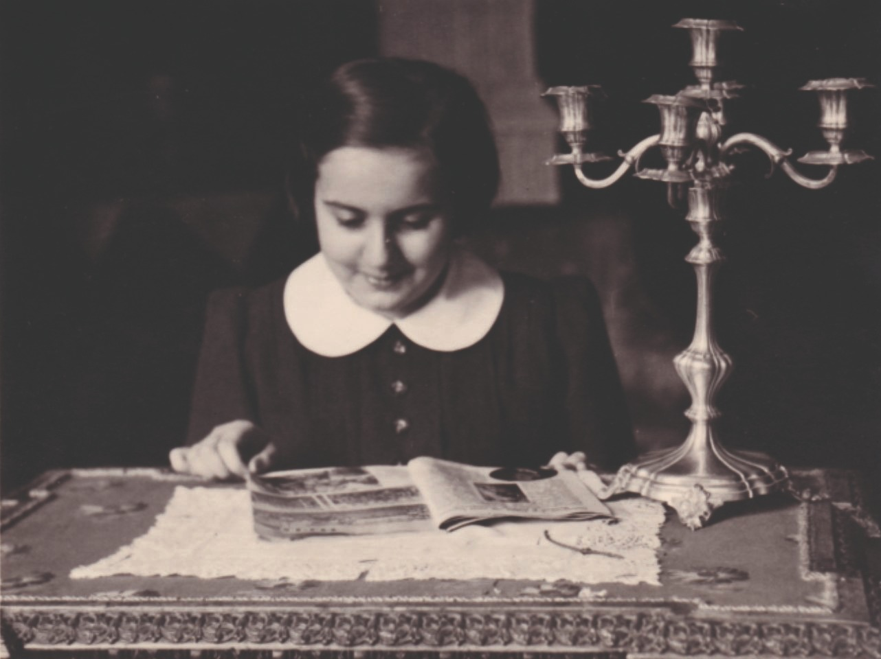 Prof. Dr Ileana Čura in youth (before The Novi Sad raid). Photo can be found in the Society for Culture, Art and International Cooperation Adligat in Belgrade, Serbia.